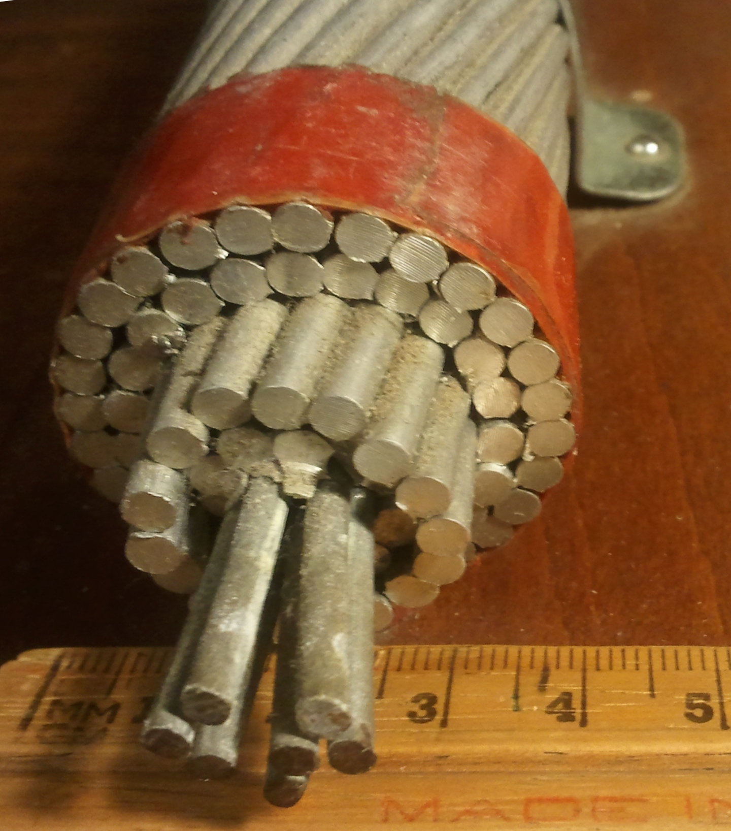 Sample cross-section of a typical ACSR conductor for a 500 kV DC overhead power line (from Benmore–Haywards link/HVDC Inter-Island transmission line, New Zealand). The conductor consists of 7 strands of steel (centre, high tensile strength), surrounded by 4 outer layers of aluminium (high conductivity). Sample diameter 40 mm. The red is just tape used to fix the sample and doesn't actually occur on the product.